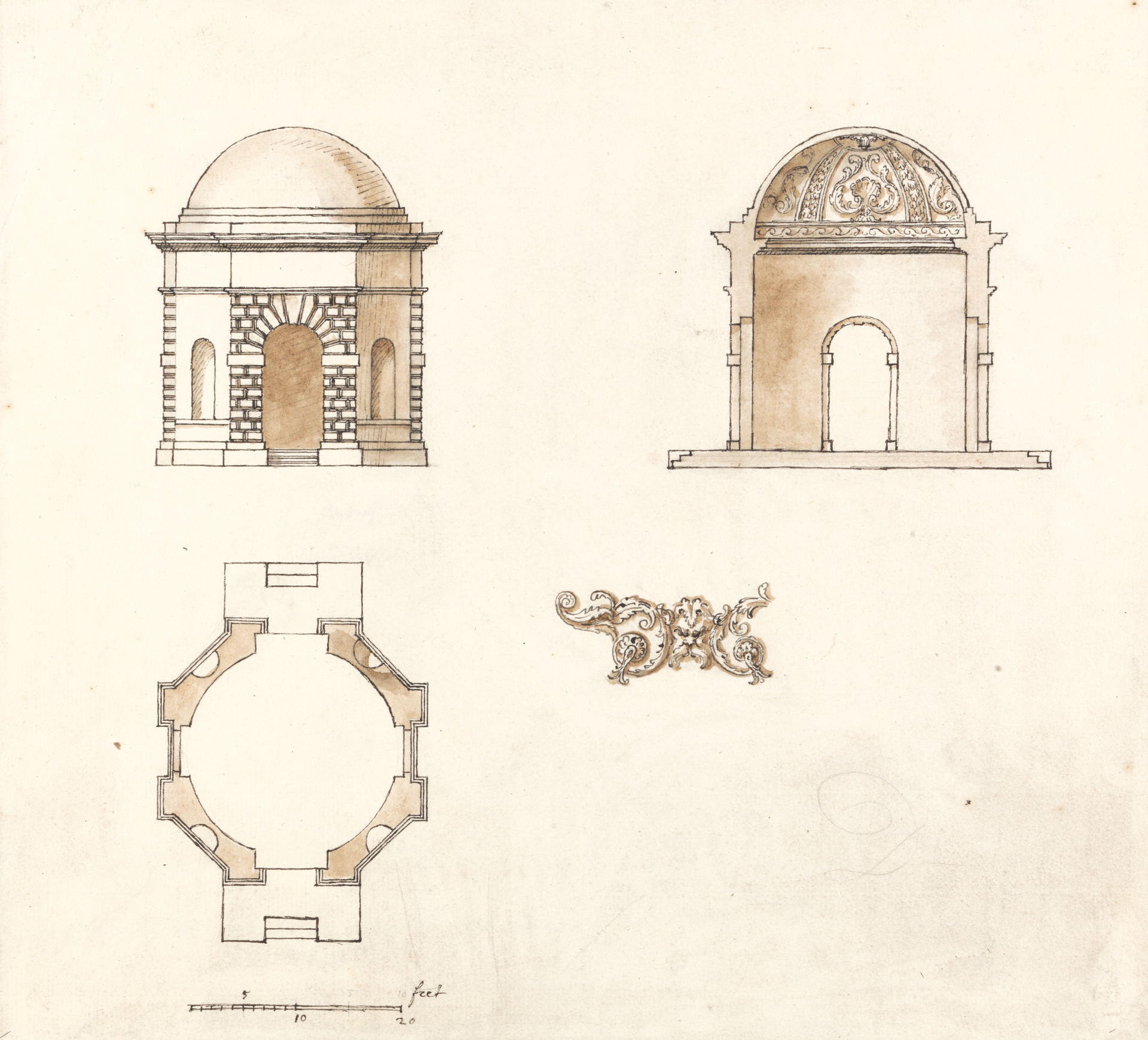 Sketch of the Octagon temple at Shotover Park by William Kent